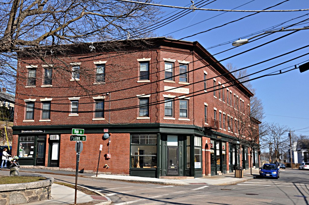 A photograph of the central area of the Newton Upper Falls Historic District in Newton, Massachusetts.